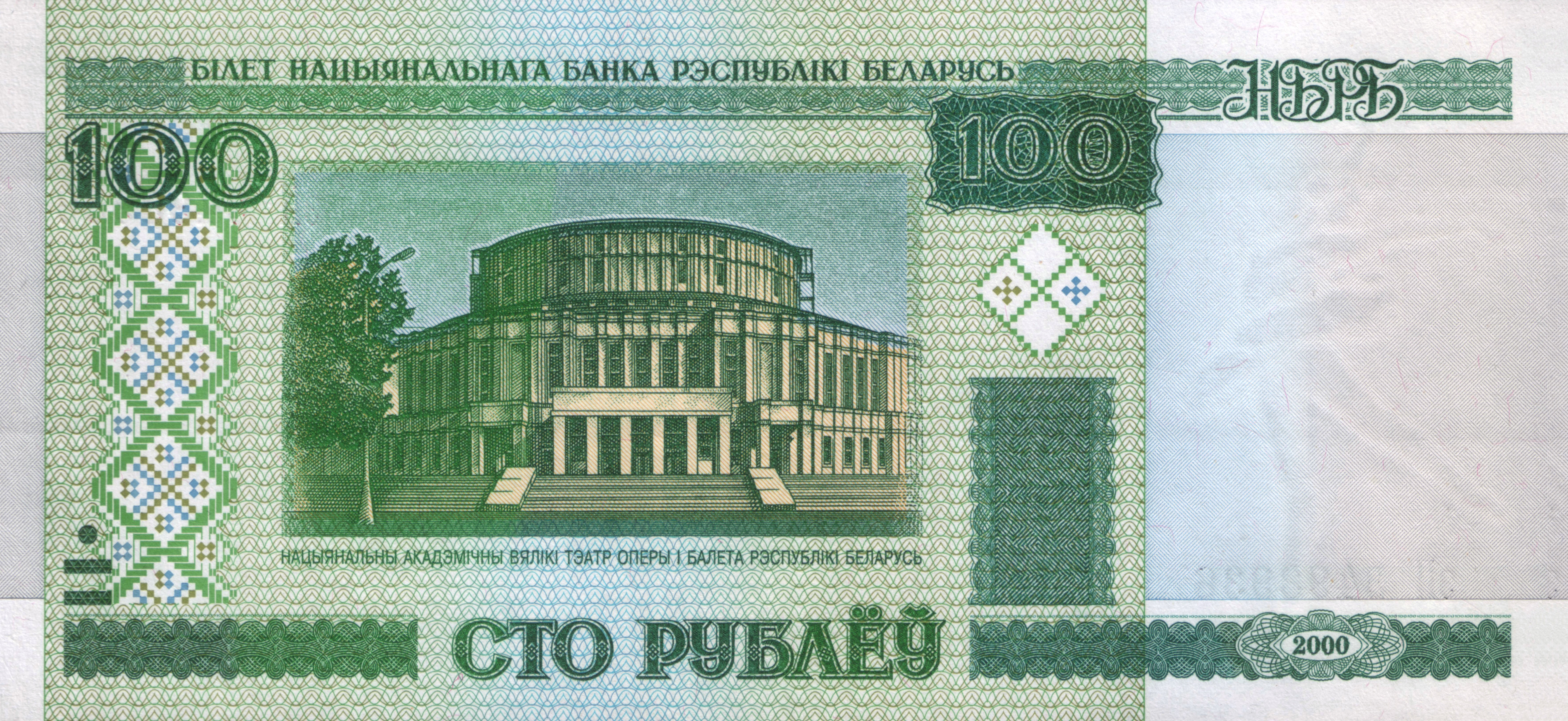 100 roubles of Belarus (2011)